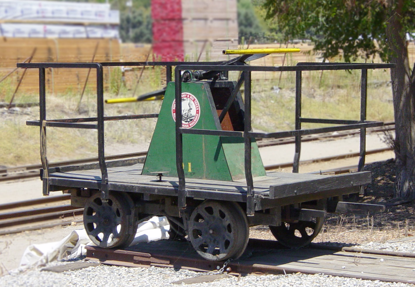 Handcar at Roaring Camp and Big Trees Narrow Gauge Railroad, Felton, California. Image taken, background selectively blurred for image clarity, and uploaded by User:Leonard G.